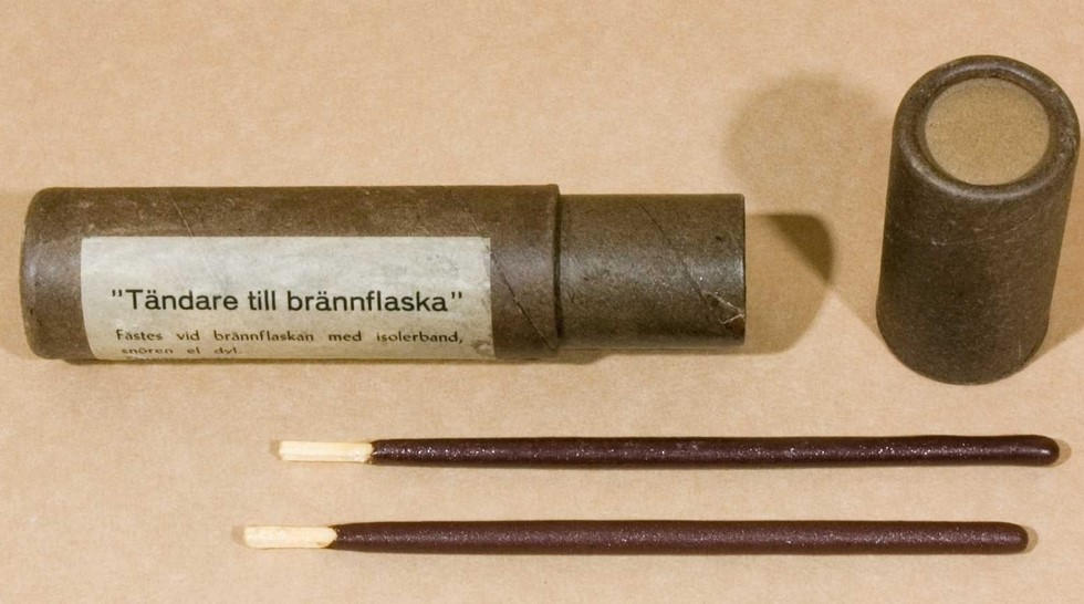 A lighter for the Swedish "molotov cocktail" Brännflaska m/40.